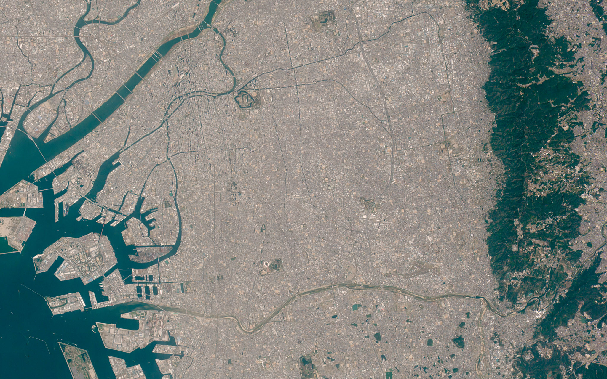 Osaka, Japan, as viewed from Hodoyoshi-1 satellite.